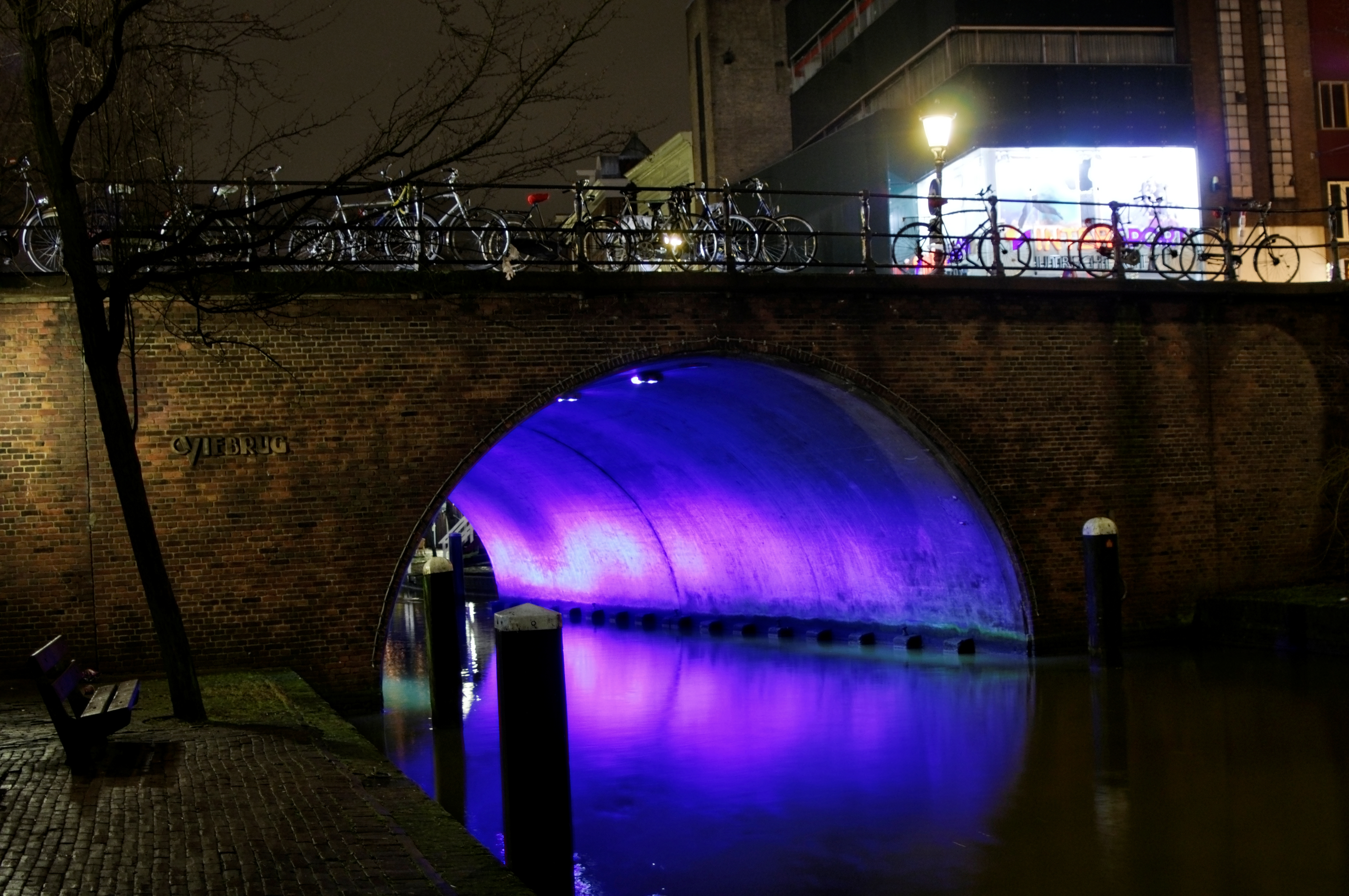 Viebrug, Utrecht at night